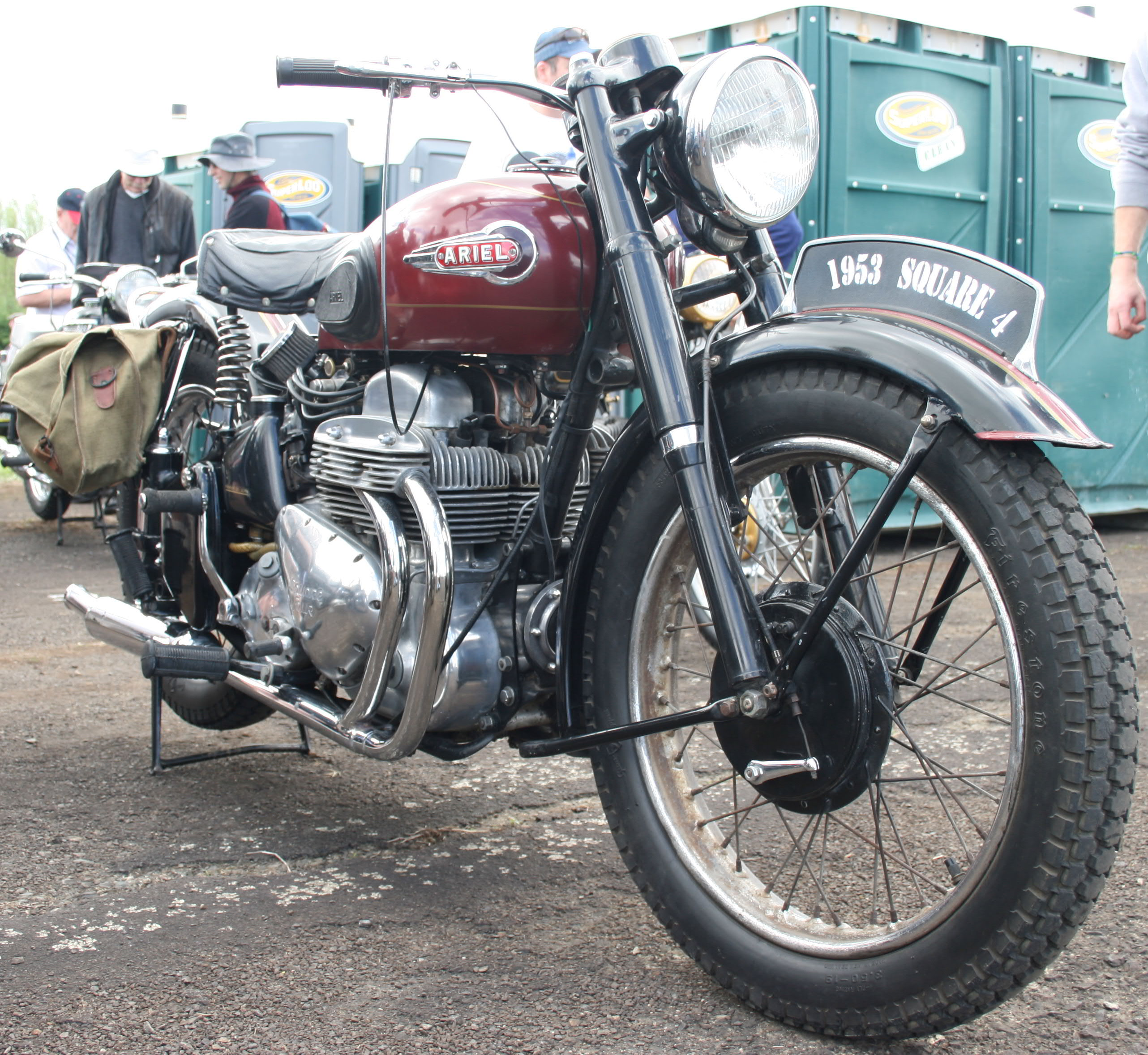 1953 Ariel Square Four, four-pipe model